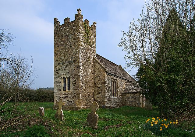 Holy Trinity parish church Turners Puddle, Dorset, seen from the west